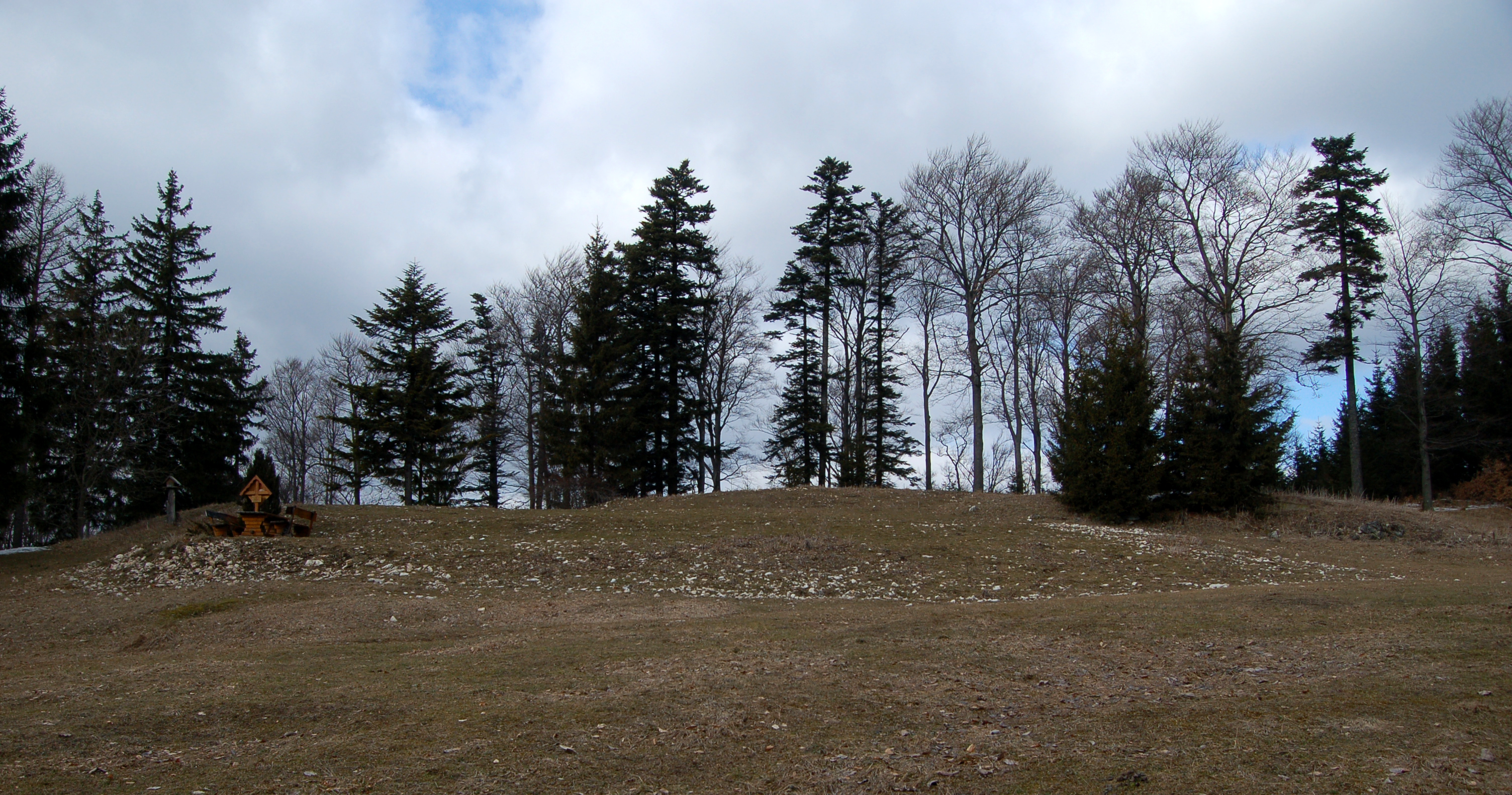 Summit of Hohe Mandling (967m), Knödelwiese. On the top there was the Berndorfer Hütte, a mountain hut that burned down in 2007.